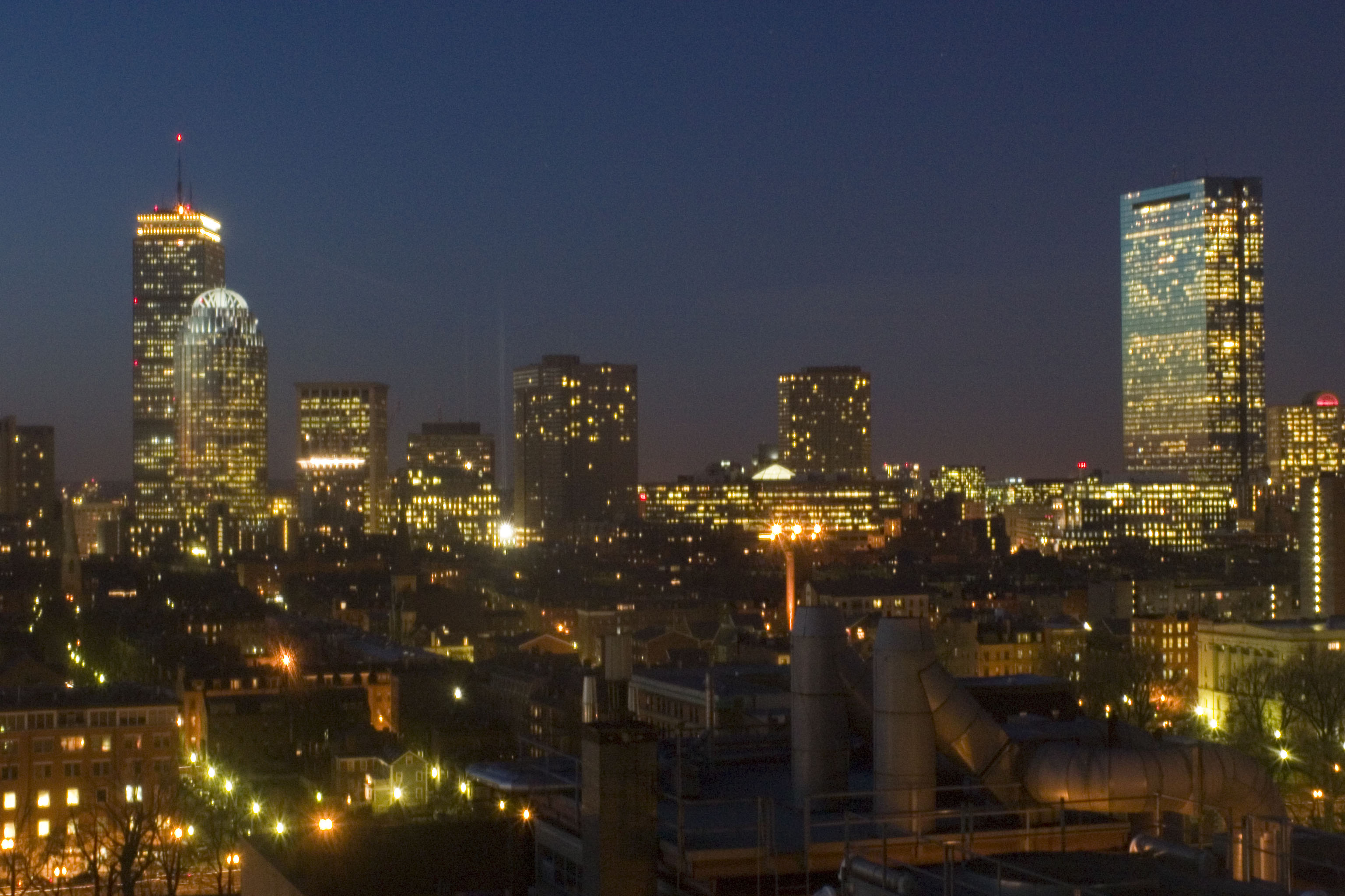 Back Bay, Boston, at night